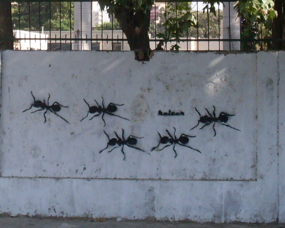 An image of ants stenciled by street artist Keizer in Cairo, Egypt